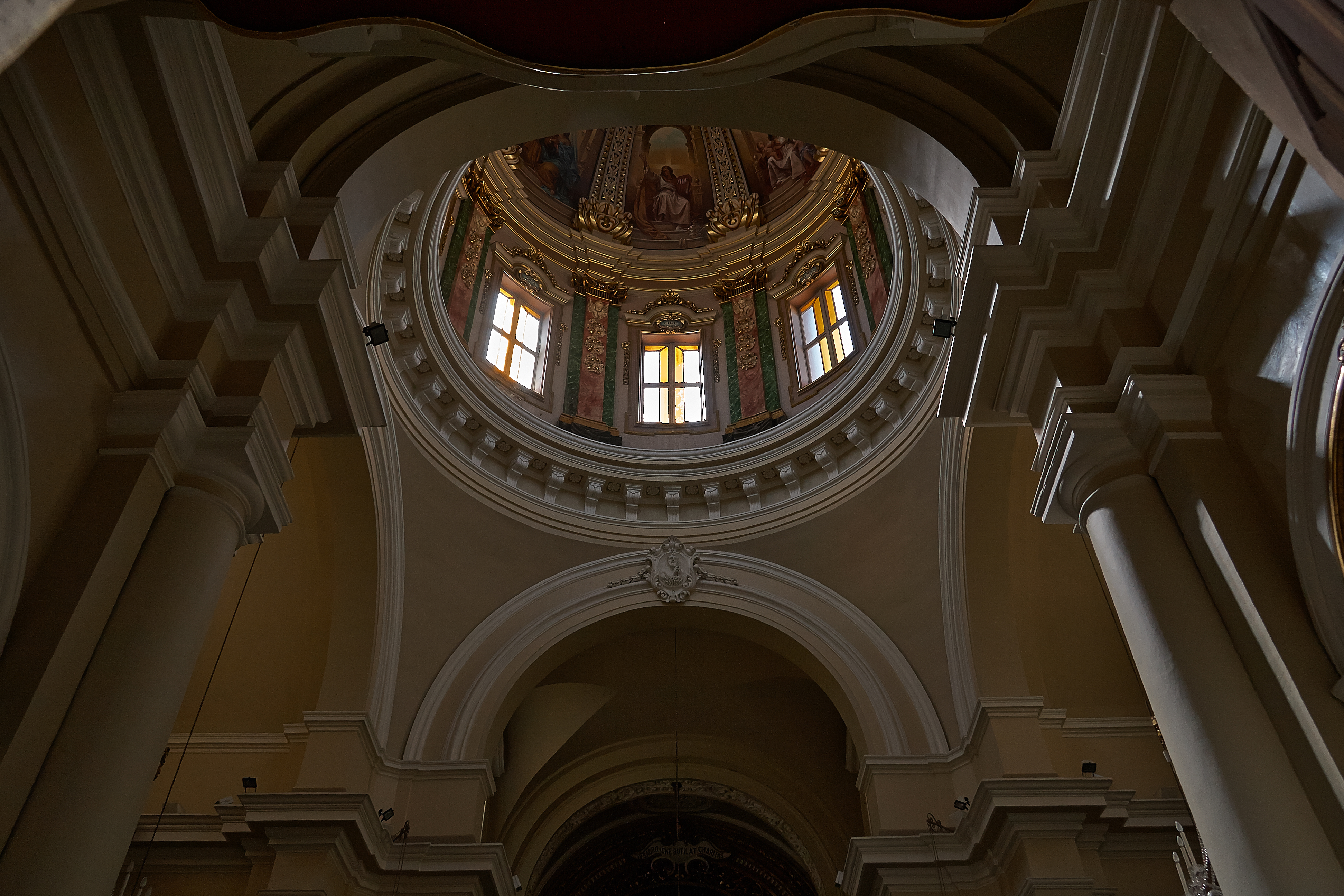 Valletta